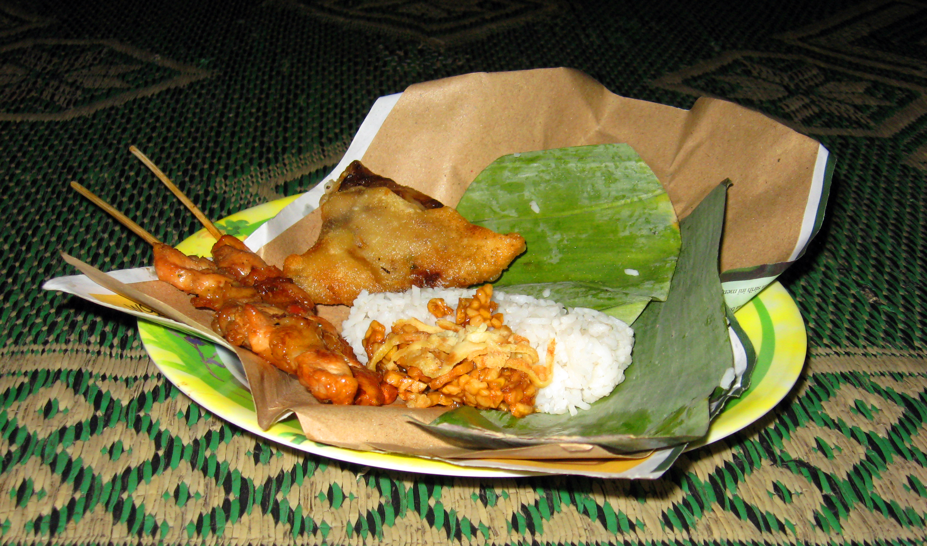 Nasi kucing with langgi (sweet, crispy tempeh and shredded egg) as well as a side serving of chicken satay and martabak. Visible are the banana leaves and paper used to wrap the nasi kucing.